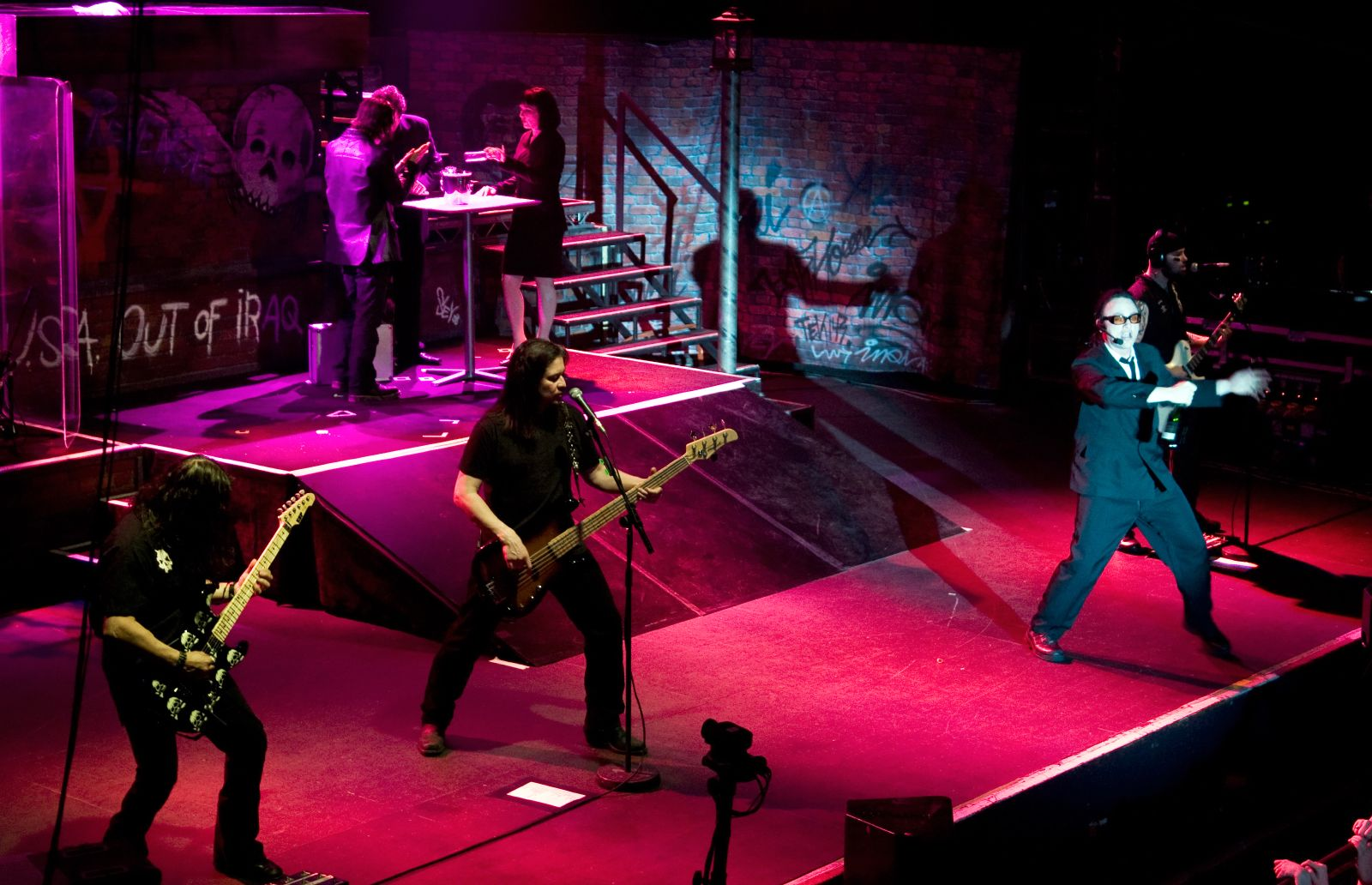 Queensrÿche concert in Barcelona, Operation Mindcrime I and II.